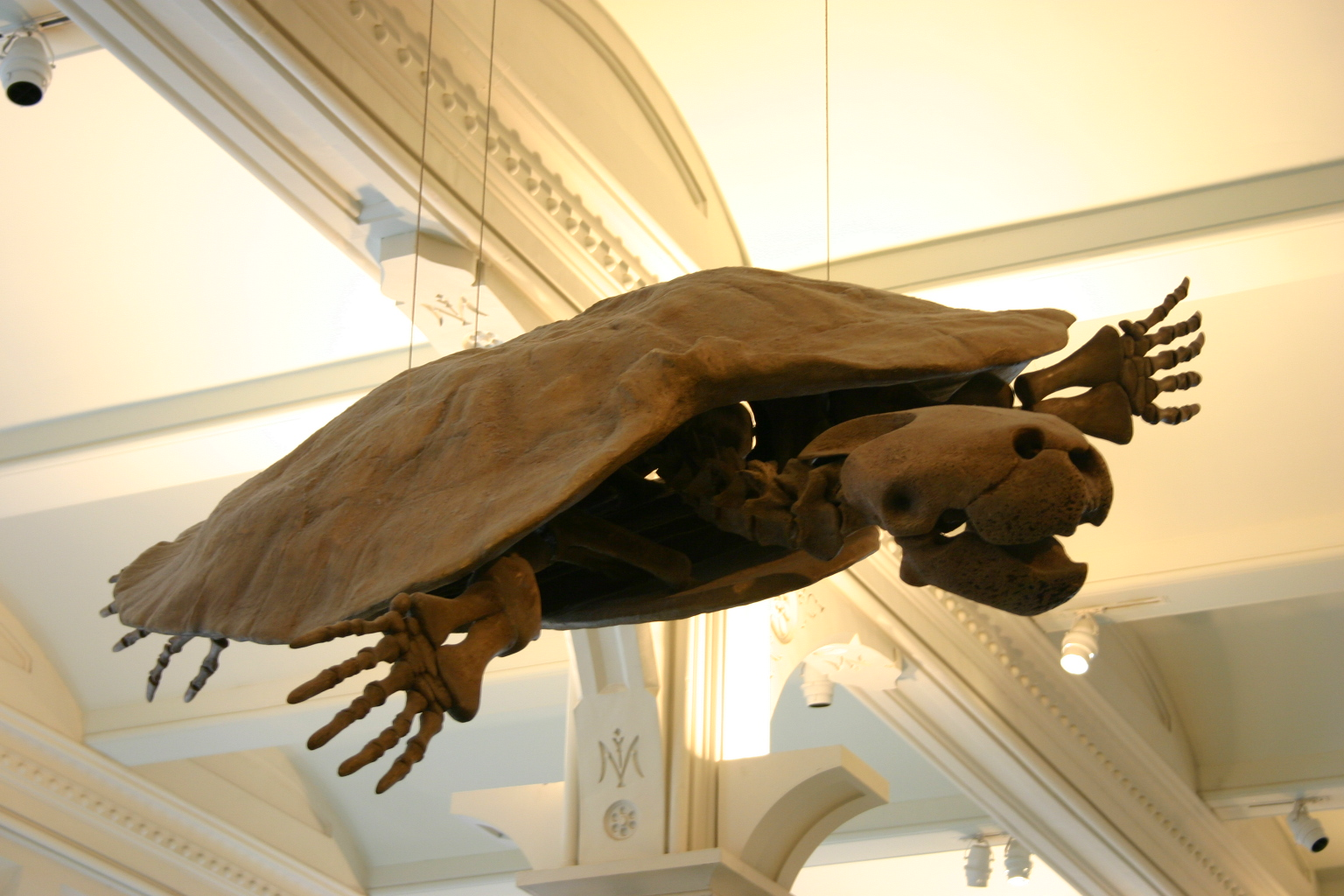 Stupendemys geographicus skeleton, with skull of Caninemys